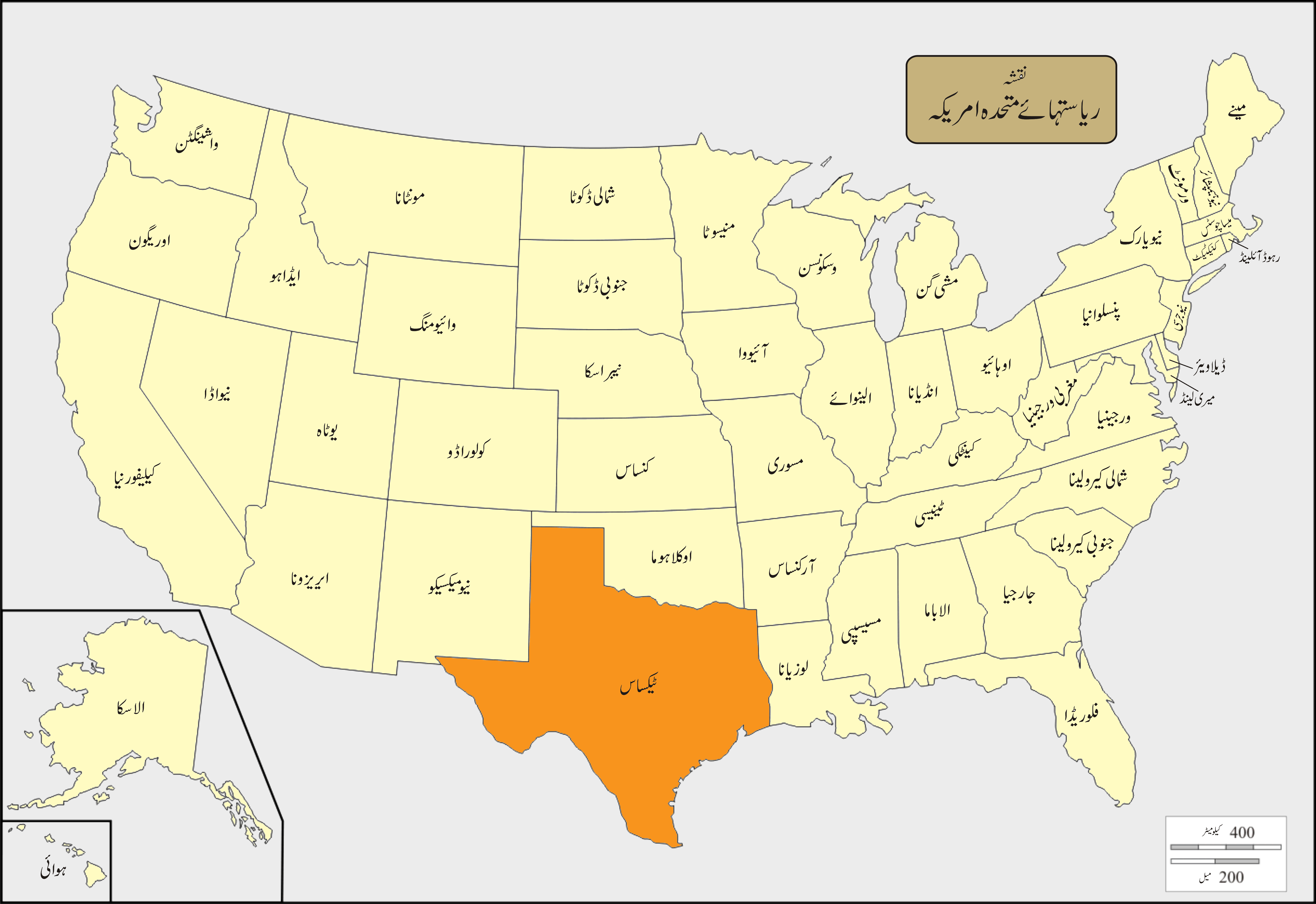 USA Names Texas